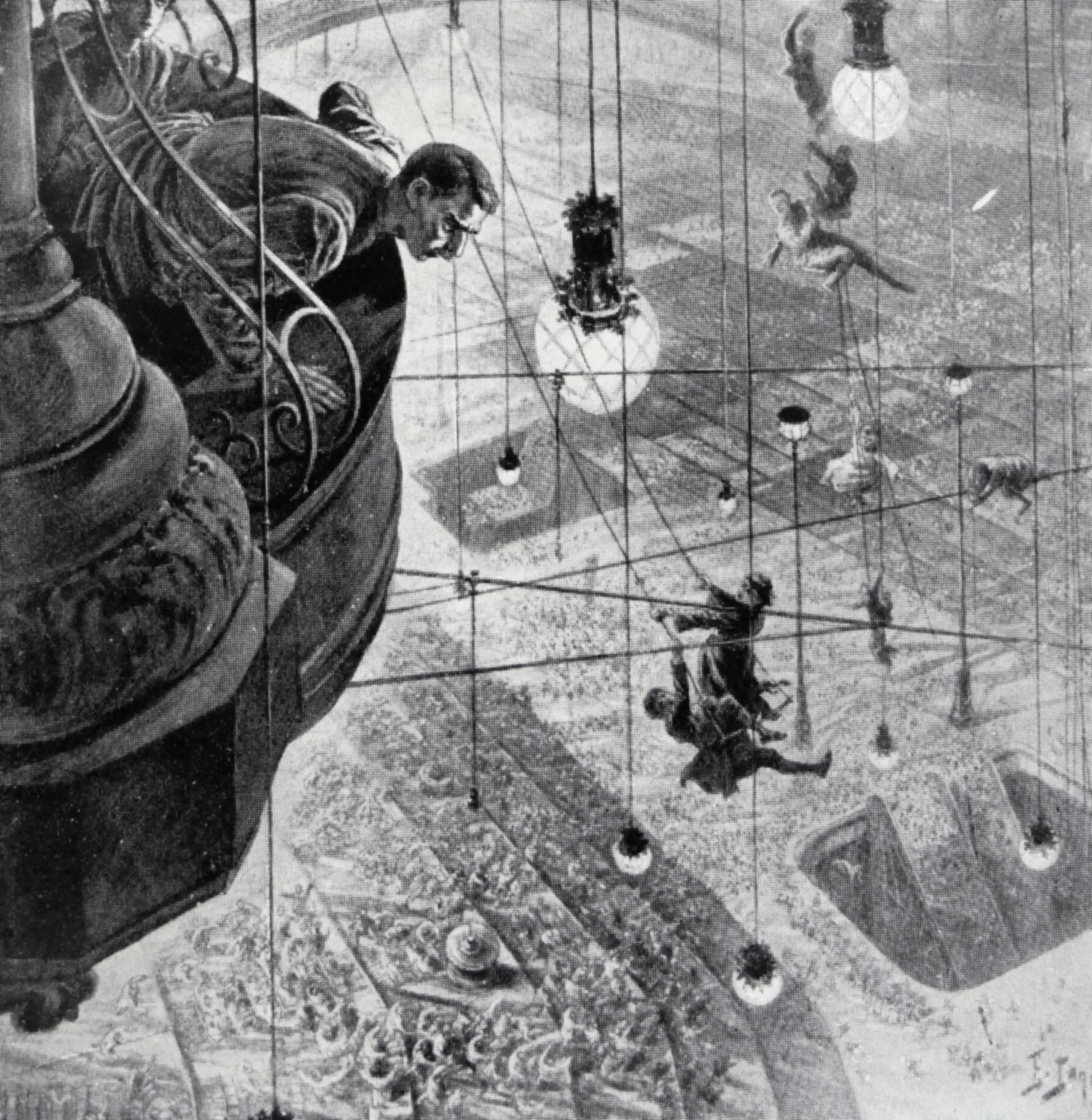 "Graham, you must come away!" Art by H. Lanos for "When the Sleeper Wakes" by H. G. Wells (1899)